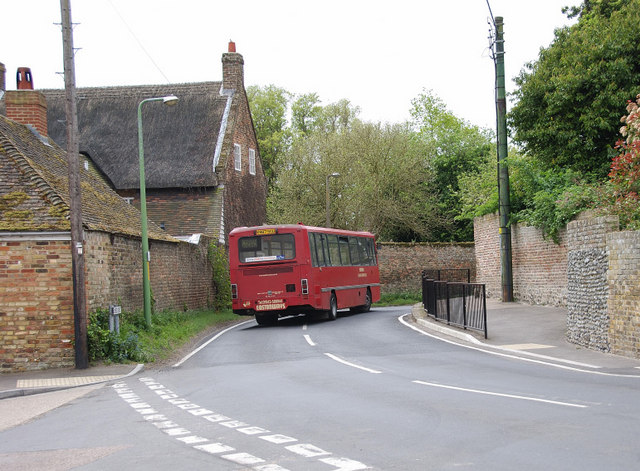 Eastonways bus travelling towards Minster church The bus has just passed the junction of Durlock on the left with Bedlam Court Lane and entered Church Street. Eastonways is a local Thanet bus company.